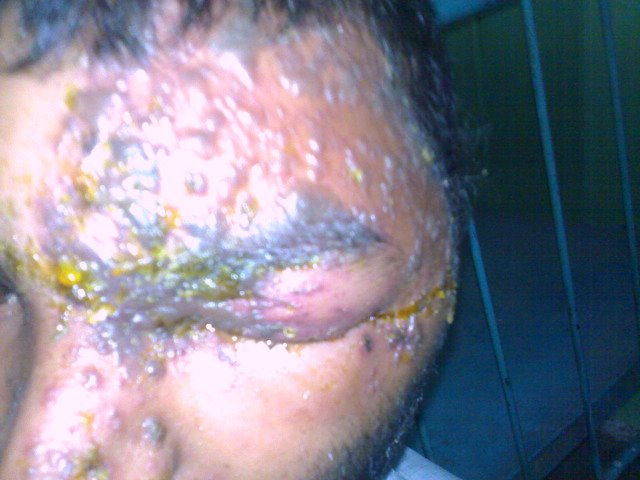 Herpes Zoster of the Ophthalmic division of the Trigeminal nerve involving the face